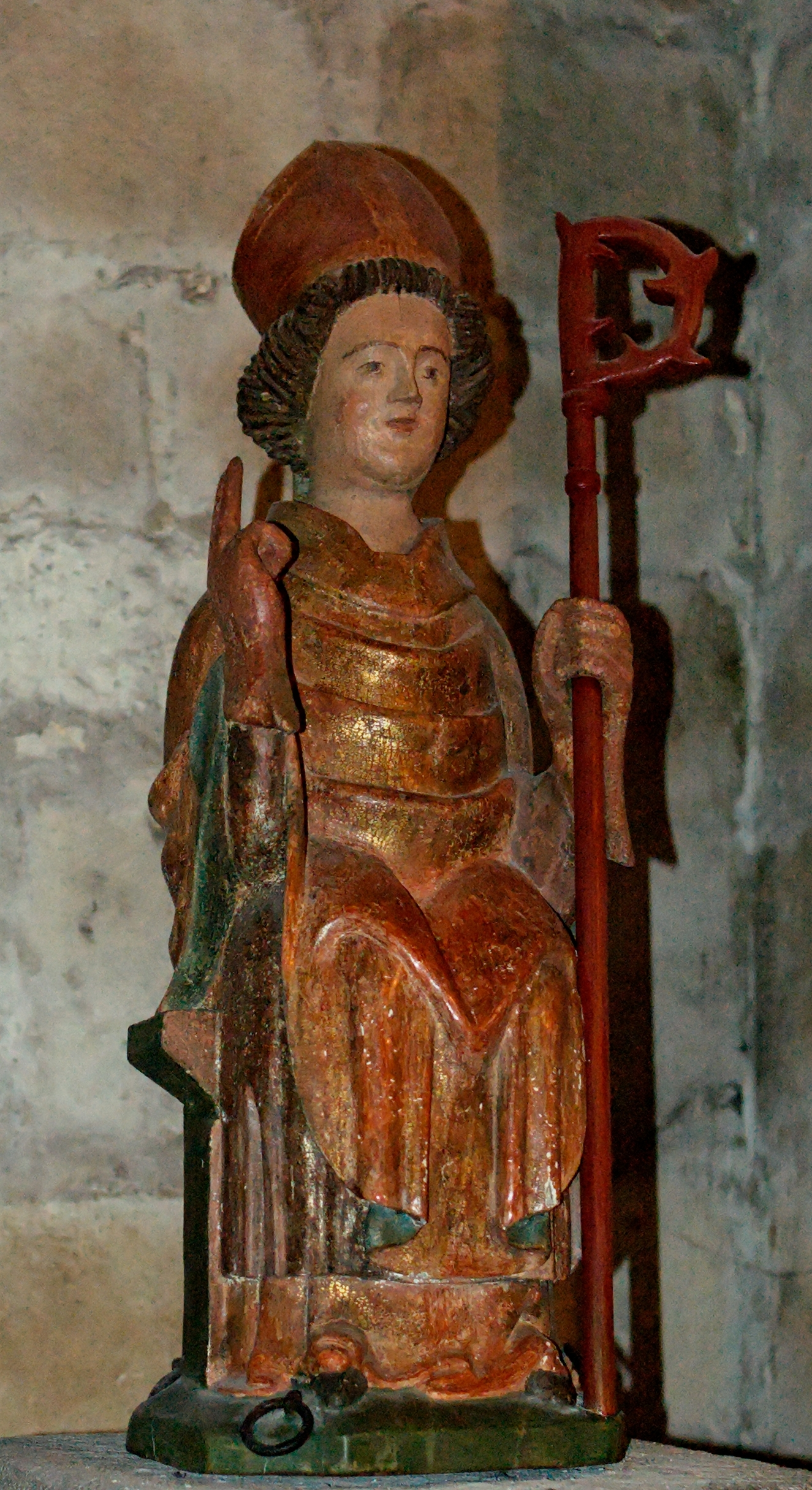 Statue of St. Austremonius, apostle and bishop of Auvergne. Wood, 15th/16th century, H. 90 cm (35 ¼ in.). Crypt of the church Saint-Austremonius of Issoire, Auvergne, France. Classified as an historical monument in 1962.